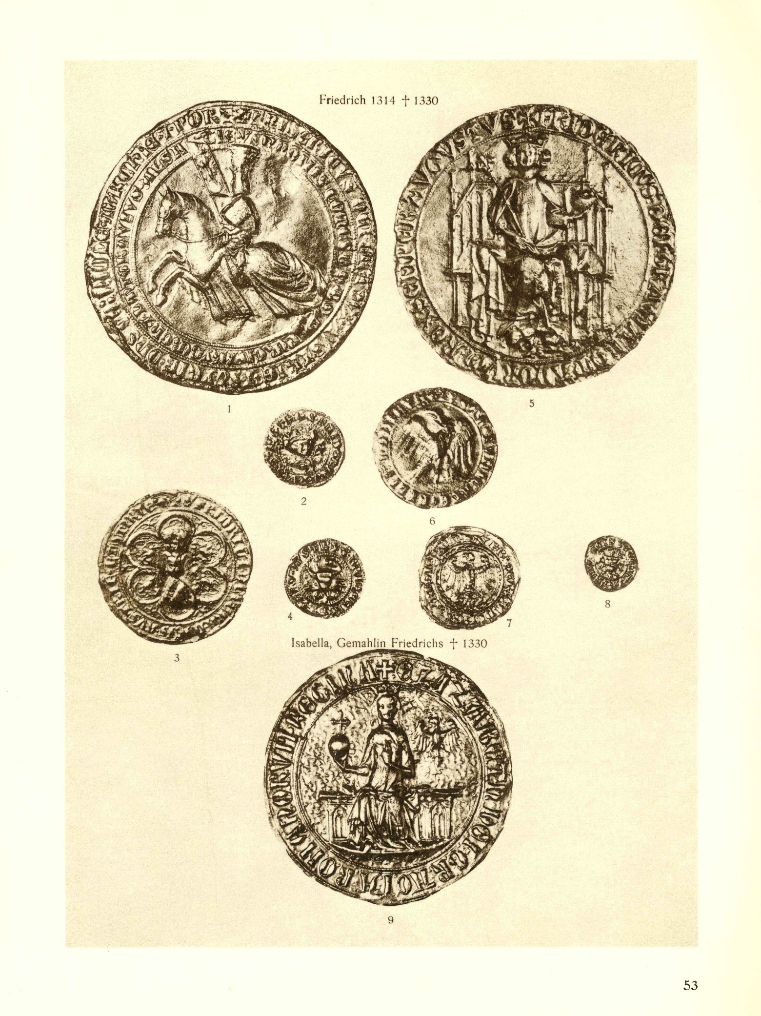 This is a scan of the historical document